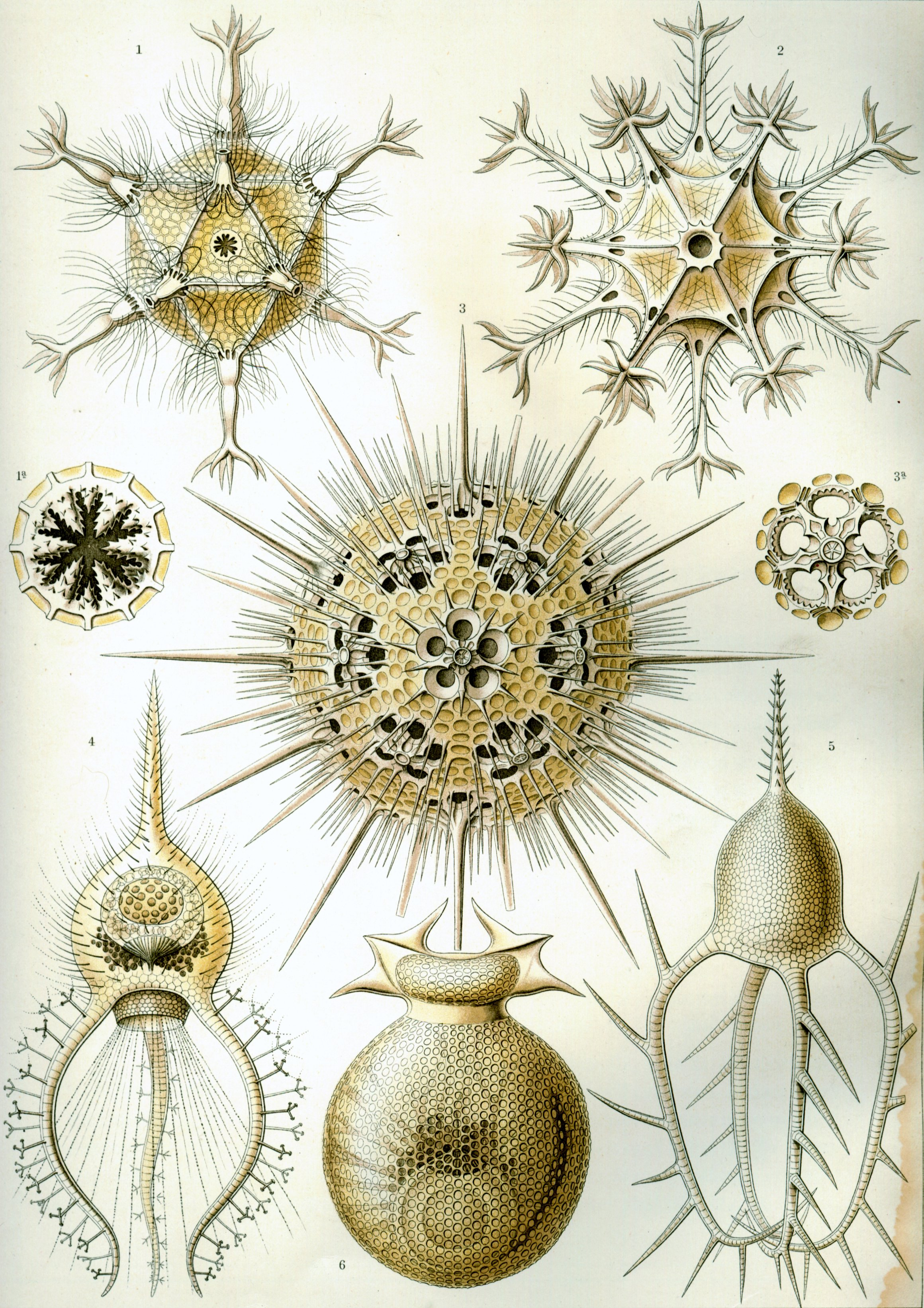 Circogonia icosahedra (Haeckel) = Circogonia icosahedra Haeckel, 1887 (1a: opening of shell) Circostephanus coronarius (Haeckel) = Circostephanus coronarius Haeckel, 1887 Haeckeliana porcellana (John Murray) = Haeckeliana porcellana Murray, 1885 (3a: pore circle without spines) Cortinetta tripodiscus (Haeckel) = Cortinetta tripodiscus Medusetta tetranema (Haeckel) = Medusetta tetranema Haeckel, 1887 Challengeria murrayi (Haeckel) = Protocystis murrayi (Haeckel, 1887)